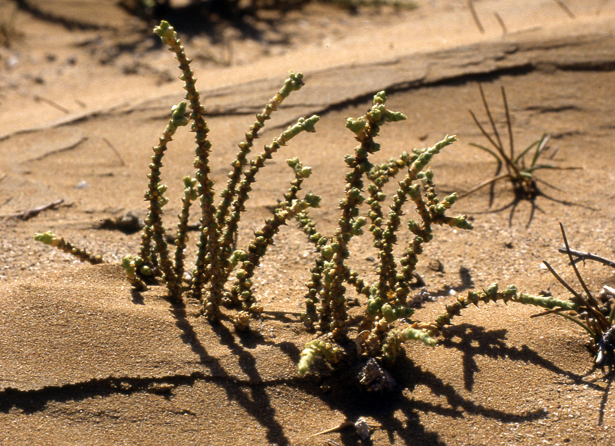 Cornulaca monacantha - Pakistan, Baluchistan, Makran, near Pasni